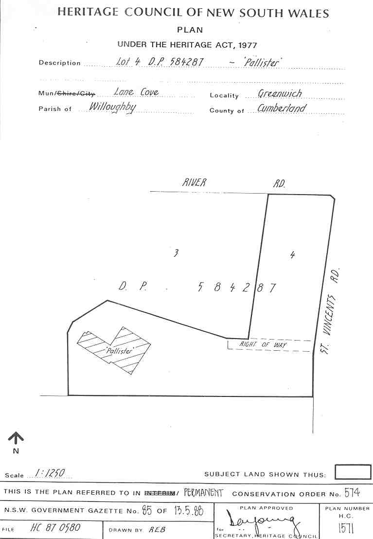 Pallister, Greenwich: PCO Plan Number 574